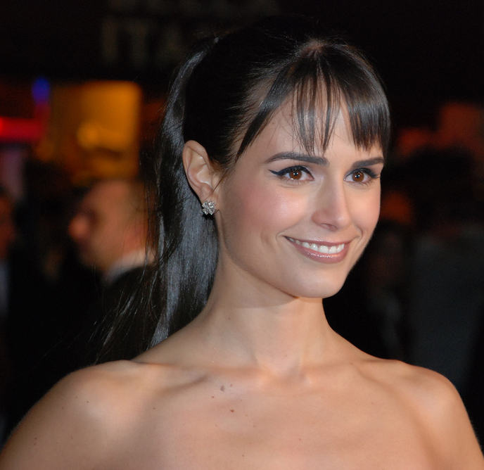 Jordana Brewster at the Fast & Furious film premiere at Leicester Square.